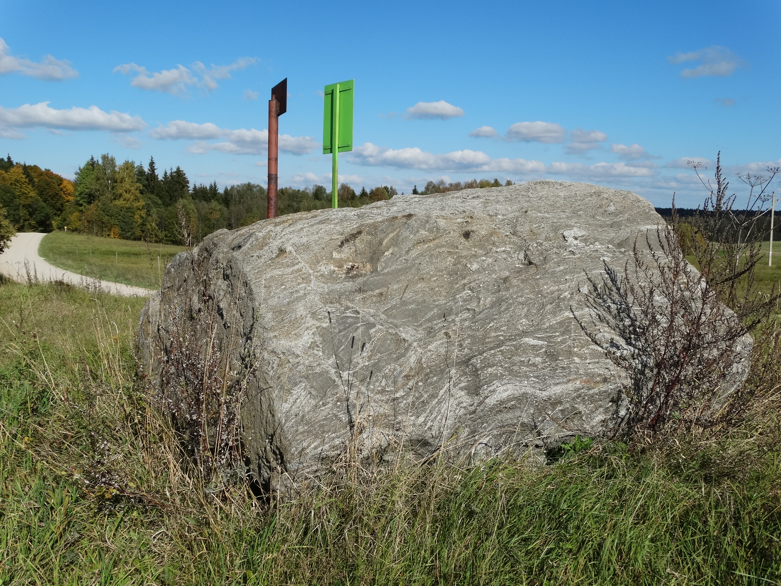 Second Stone, Klėriškės, Kaišiadorys district, Lithuania